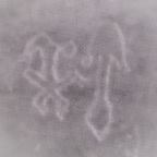 Inscription on rongorongo item J